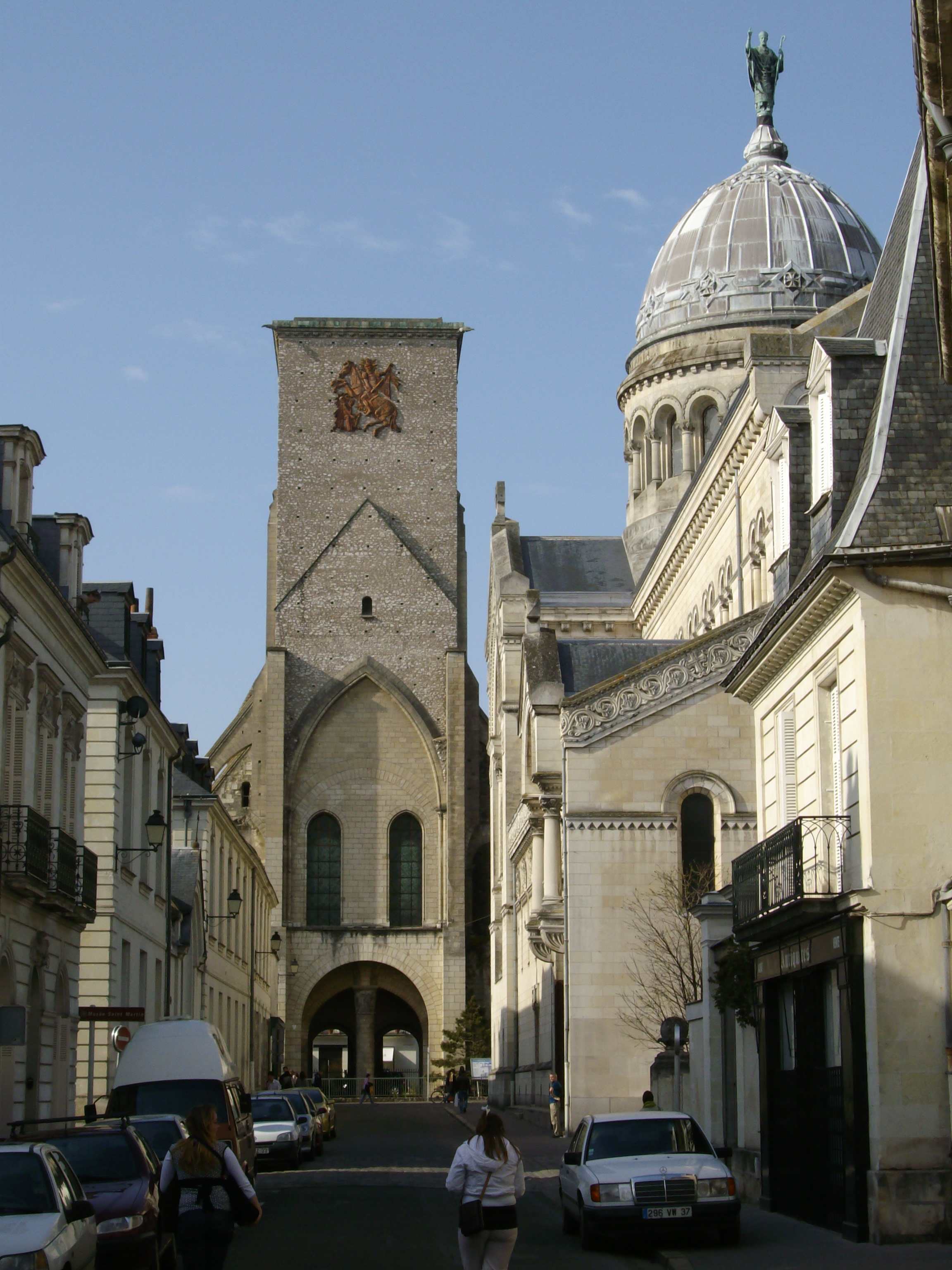 Tour Charlemagne, in Tours.